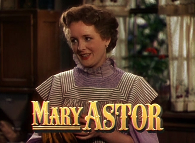 Cropped screenshot of Mary Astor from the trailer for the film Meet Me in St. Louis.